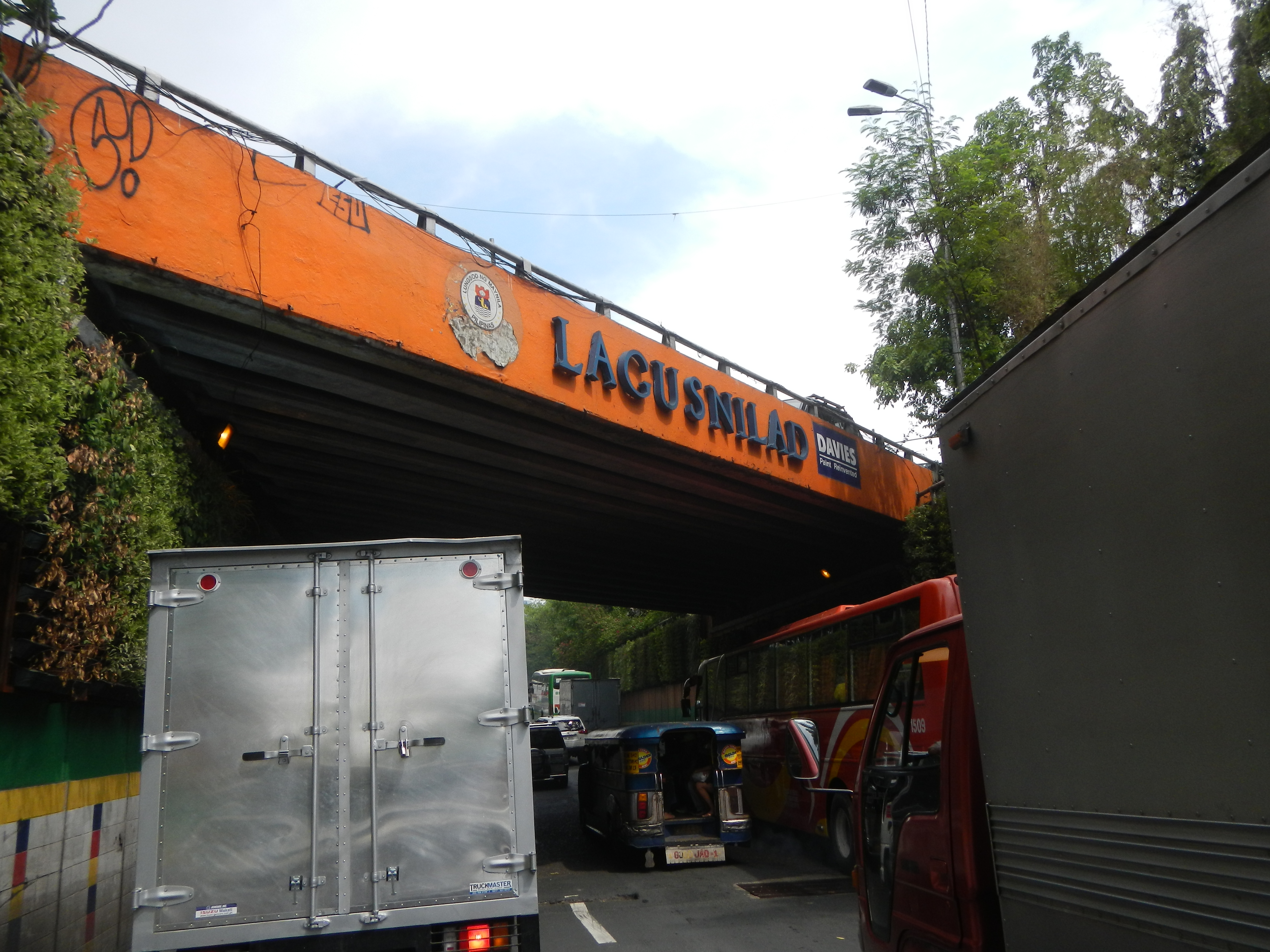 Lagusnilad